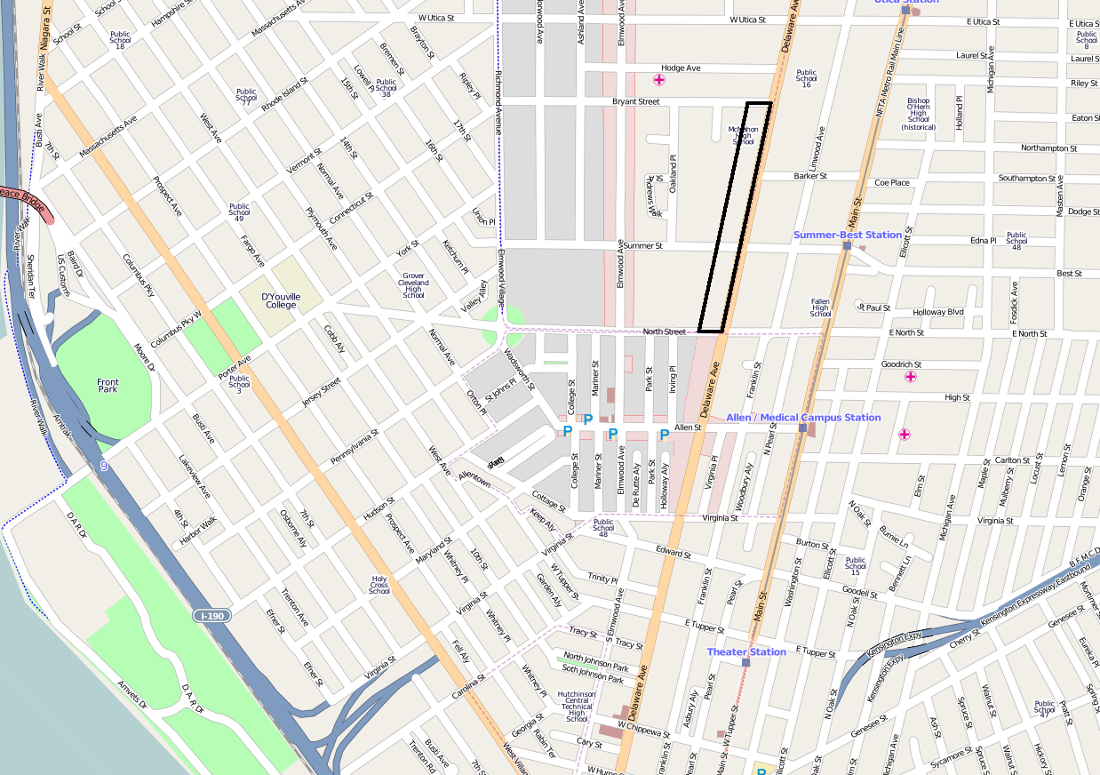 Delaware Avenue Historic District (Buffalo, New York) in Buffalo, New York This map may be incomplete, and may contain errors. Don't rely solely on it for navigation.